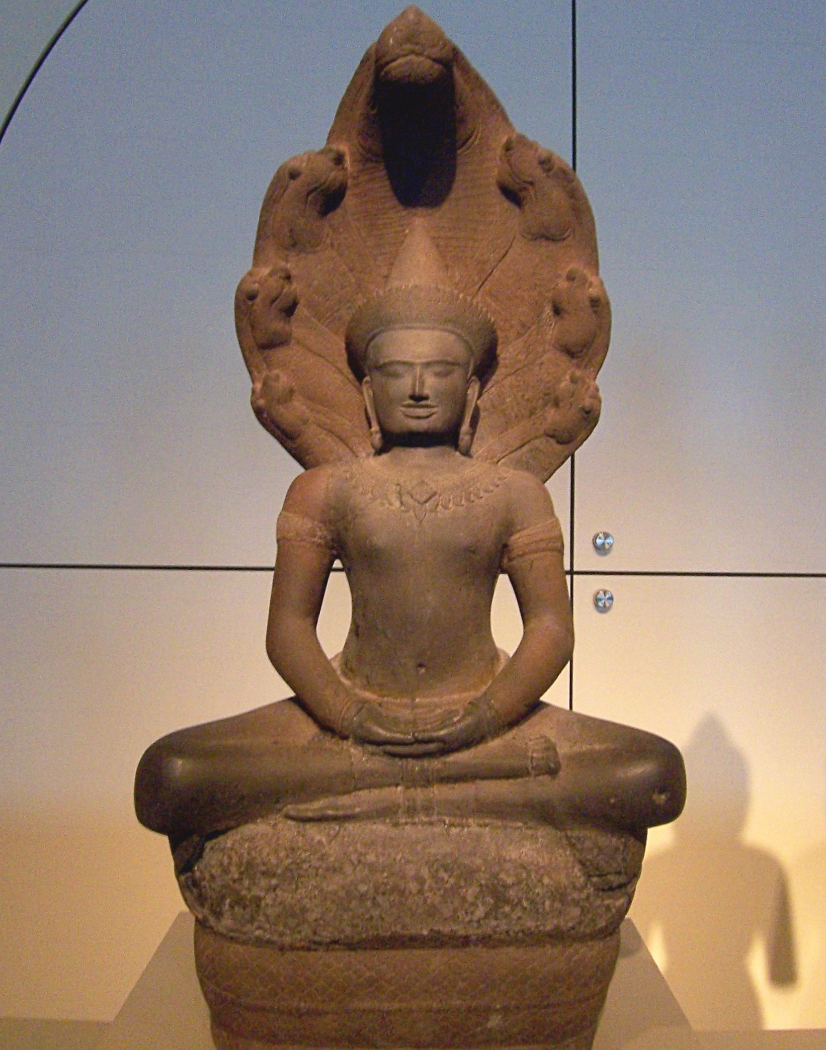 I took this photograph at the Asian Arts Museum in San Francisco. It is of a Cambodian statue of the Buddha, shielded by the Naga Mucalinda. The statue is dated between 1150 and 1175 A.D.